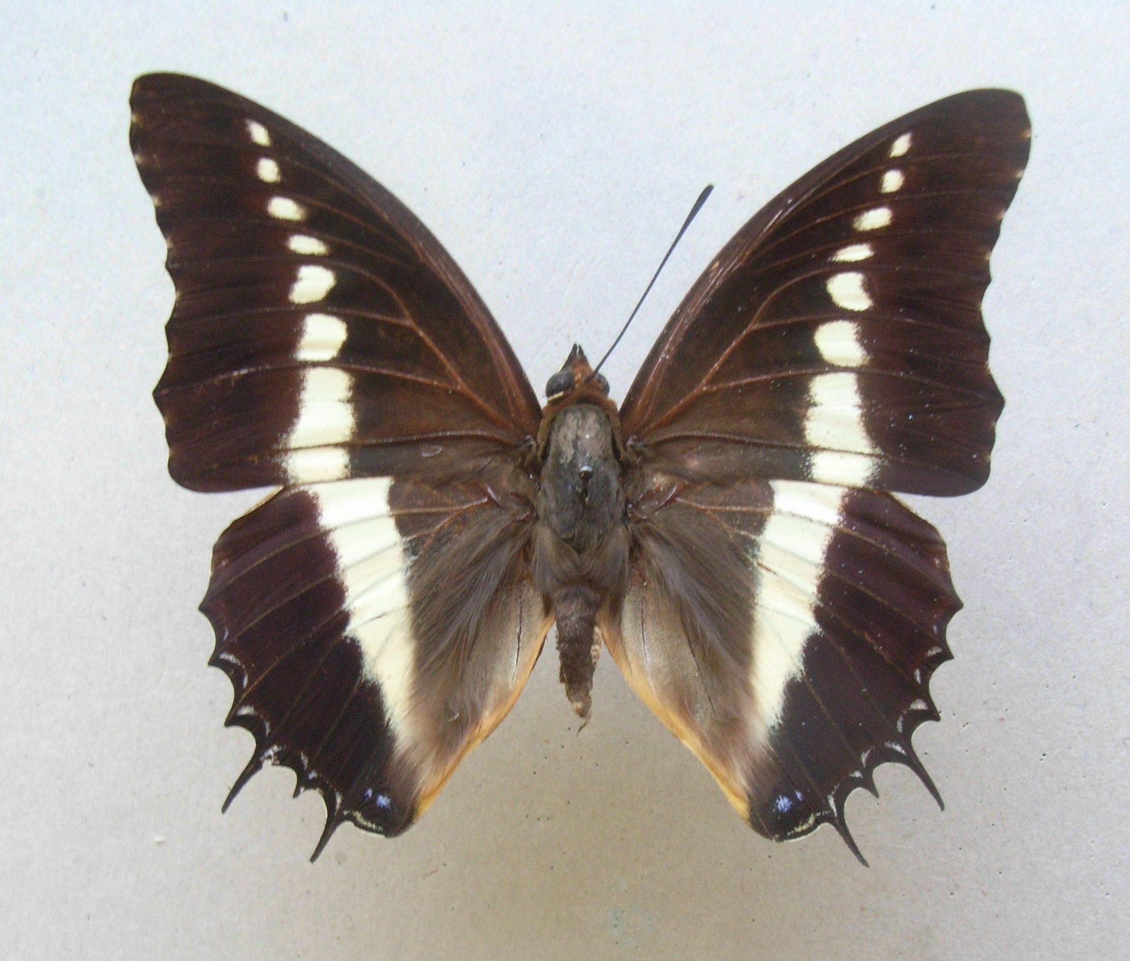 Charaxes brutus:Charaxinae:Nymphalidae